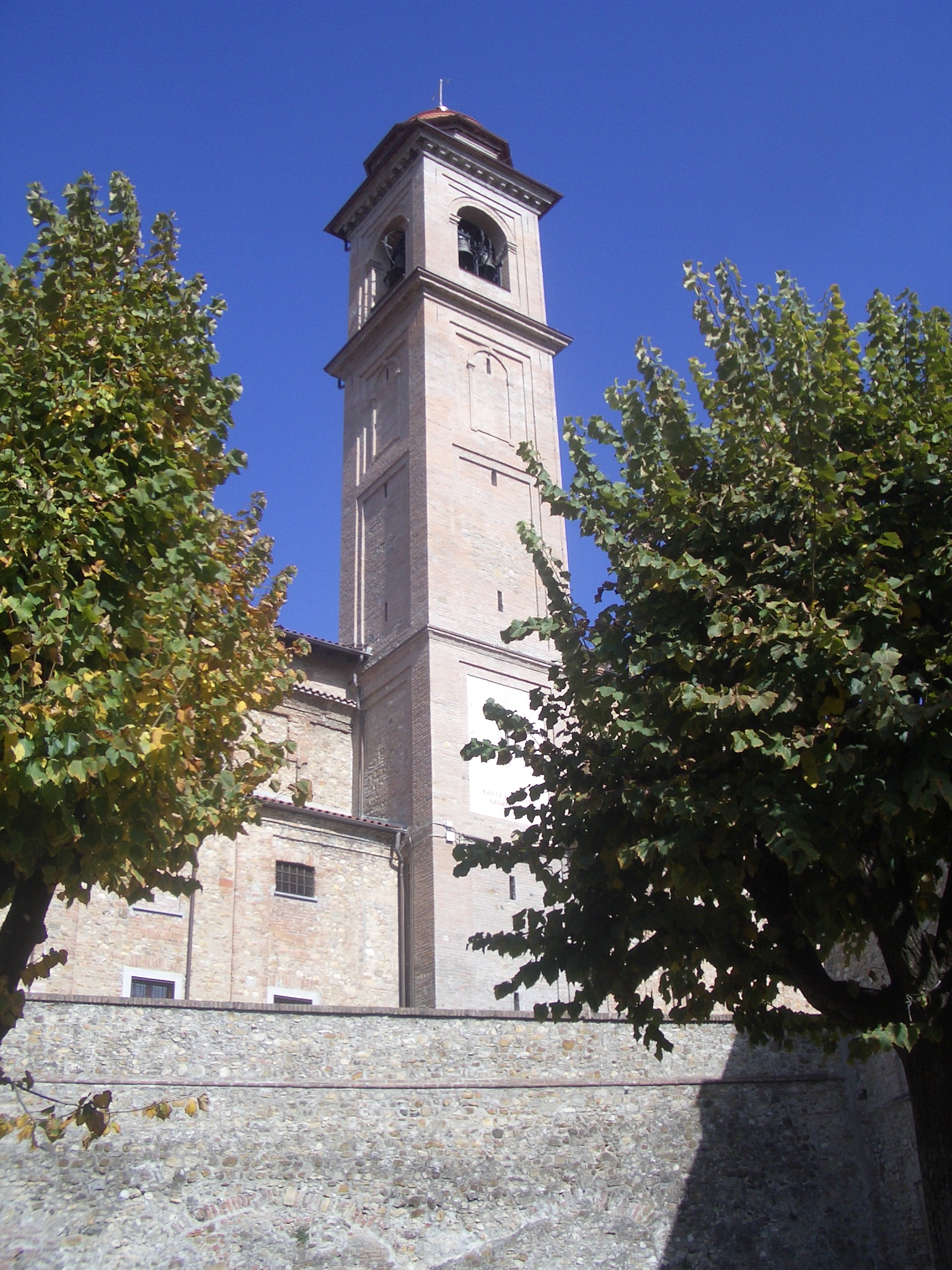 Campanile of the parish church, Volpedo, Alessandria, Italy